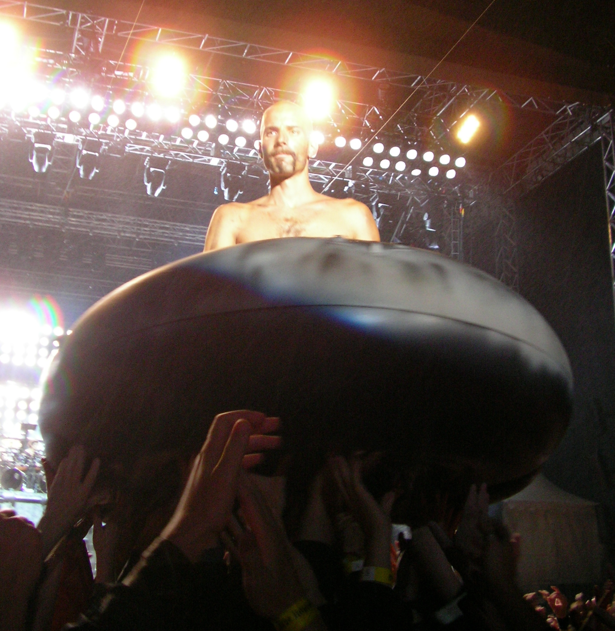 Oliver Riedel, bass player o Rammstein, crowdsurfing in his rubberboat during "Seemann" at Metaltown, Gothenburg, 2005.